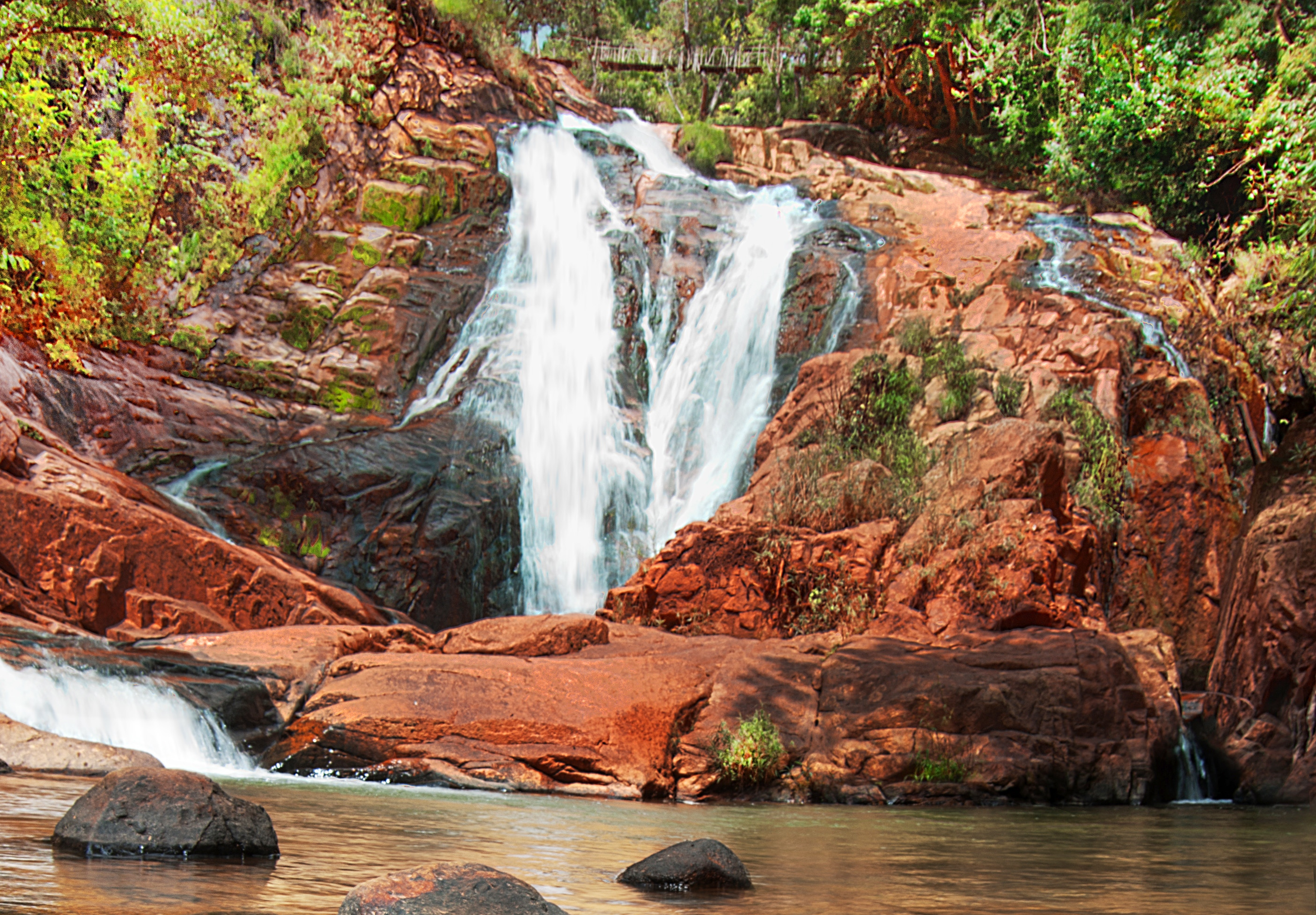 Hang Cop Waterfall